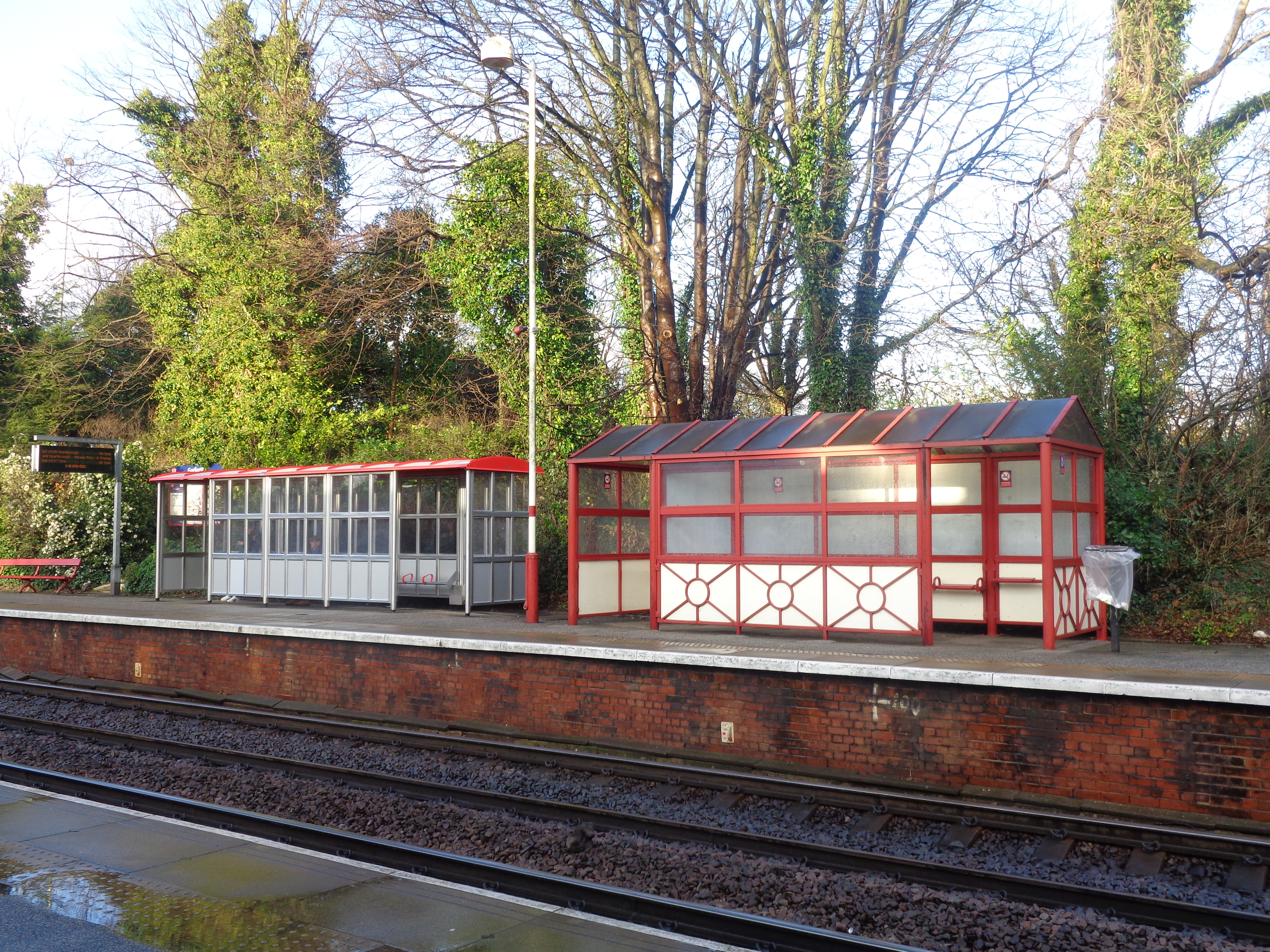 New (left) and old (right) shelters on the York bound platform at Garforth railway station, Garforth, West Yorkshire. Taken on the afternoon of Monday the 21st of December 2015.